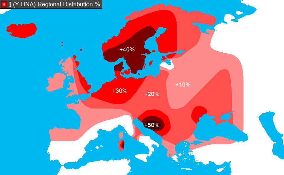 I (Y-DNA) Distribution in Europe